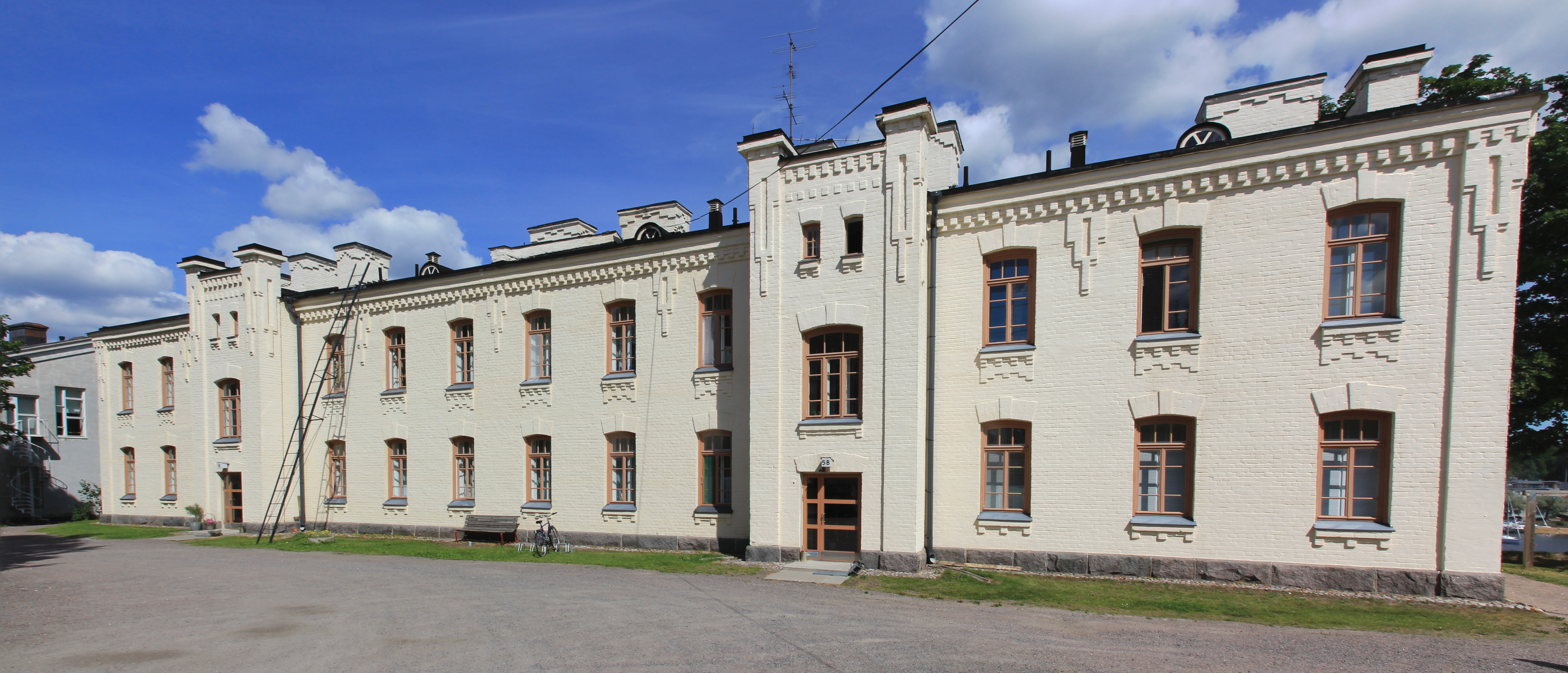 Residential building in Lappeenranta Fortress. This building is among the last Russian-era buildings in the fortress.